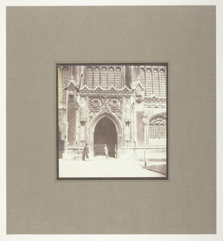 Salted paper print by Henry Fox Talbot